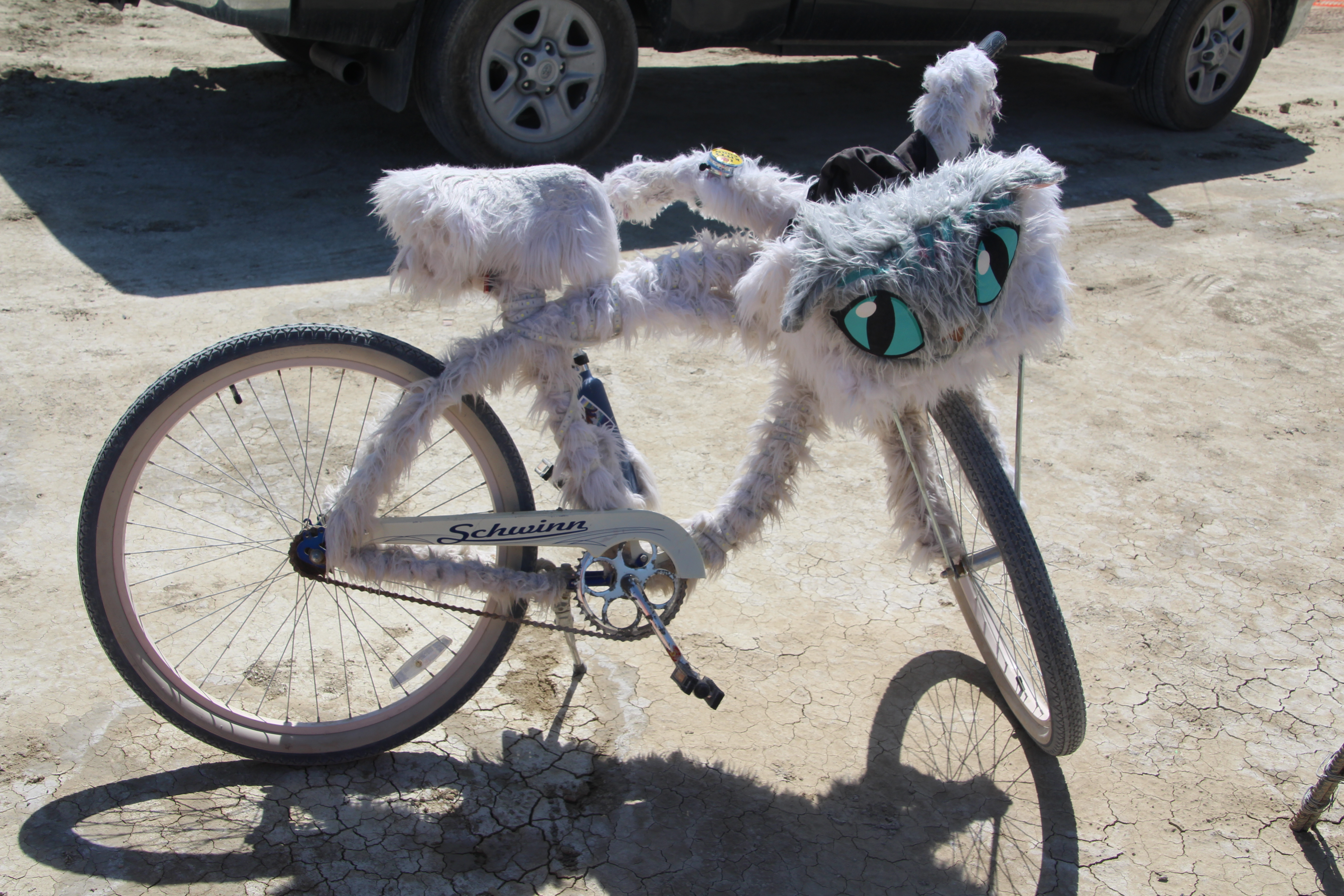 Photo by Dana Wilson, BLM Public Affairs